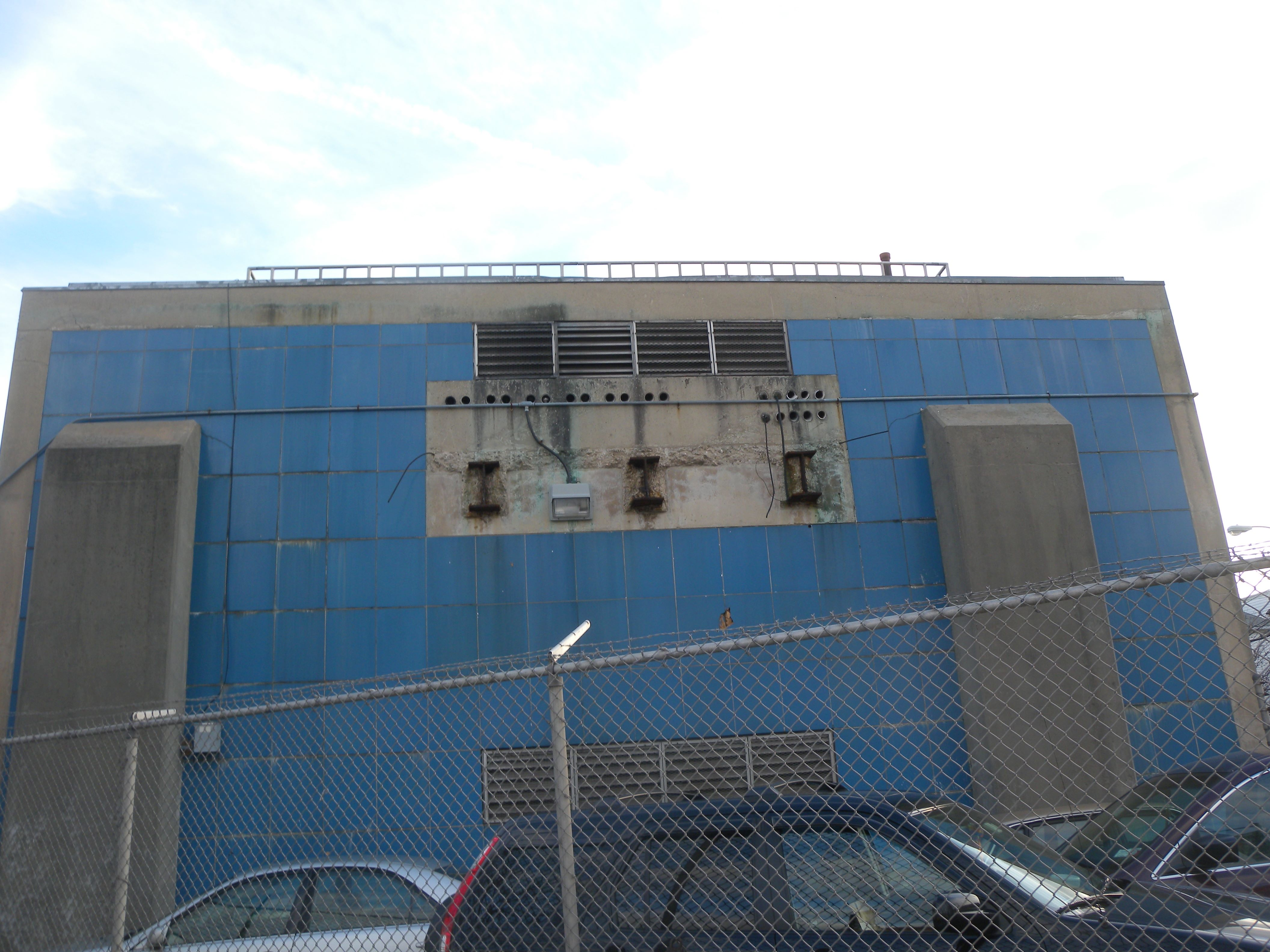 Looking south at place on the 144th St powerhouse's wall where it formerly fed the elevated line on a cloudy afternoon.